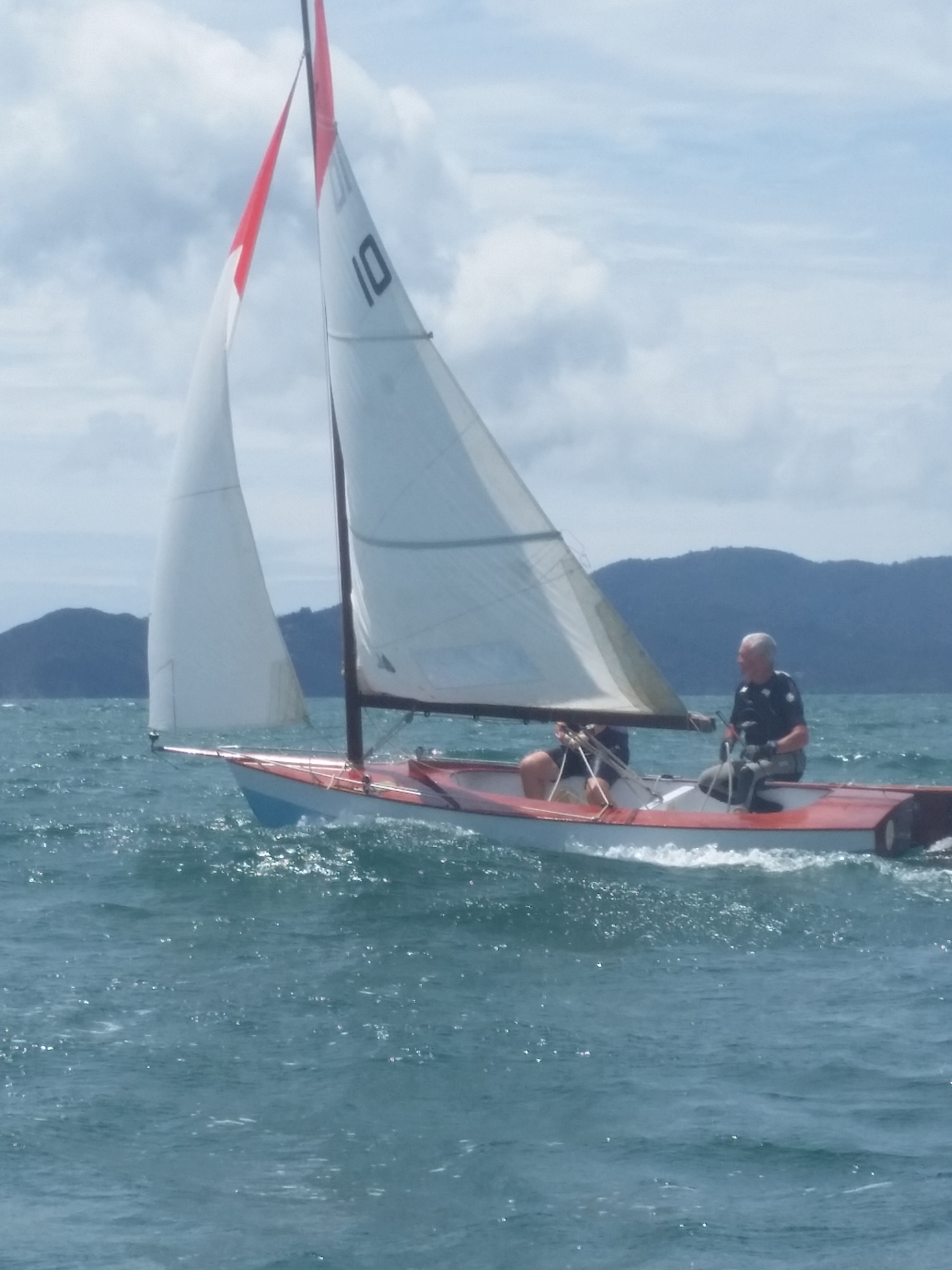 Classic marlin sailing dinghy designed by Ian proctor